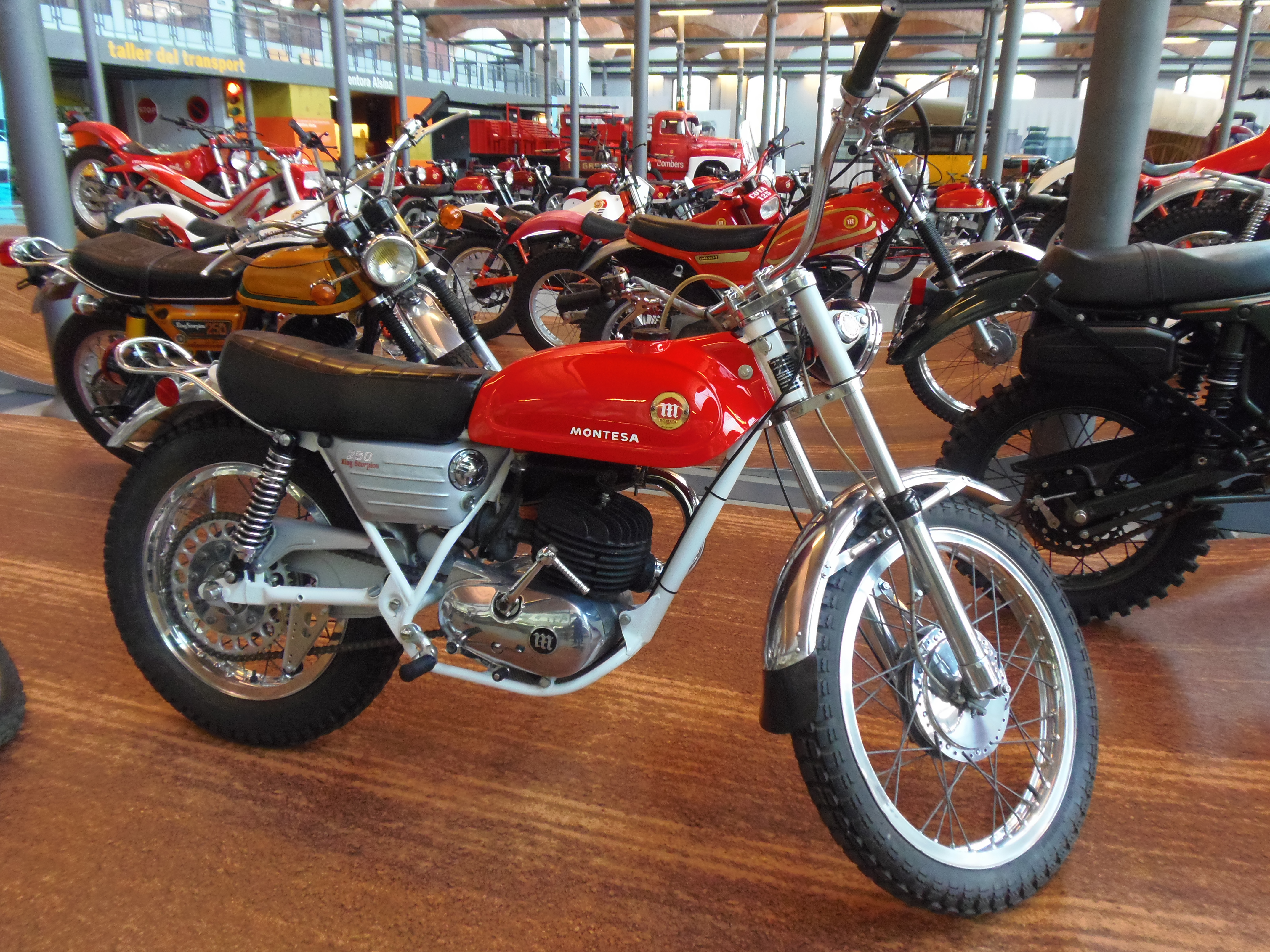 Montesa King Scorpion 250, 1970